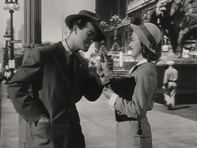 Mark Stevens & Olivia de Havilland in The Snake Pit - trailer (cropped screenshot)